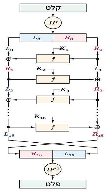 Untwisted ladder model of DES encryption